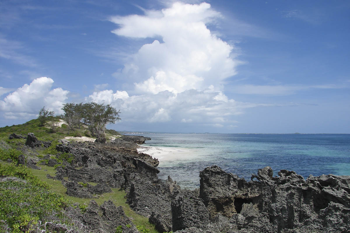 Sakalava : north of Madagascar